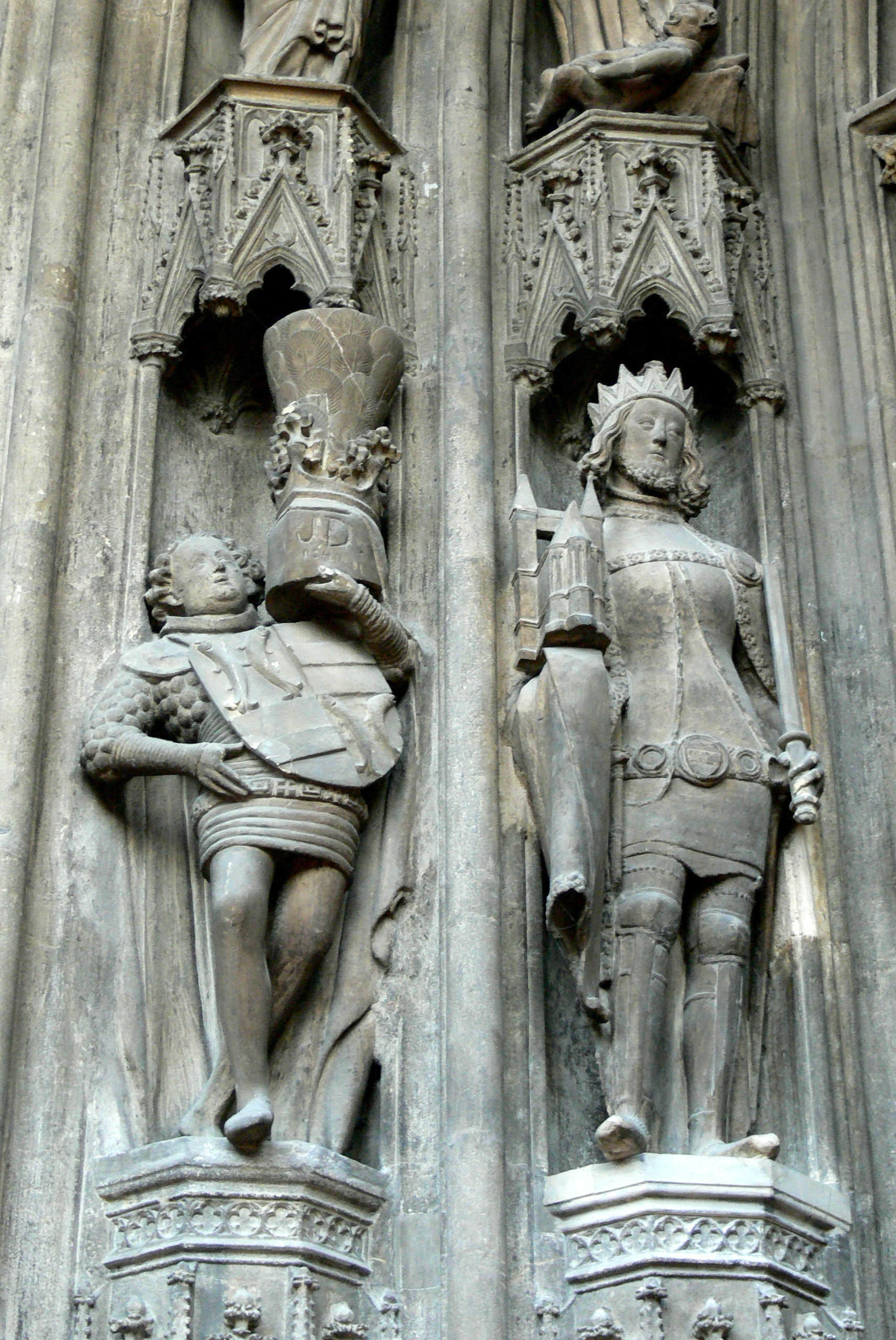 St. Stephen's Cathedral, Vienna. Bishop's gate: Statues of Rudolf IV, duke of Austria, and a servant carrying his coats of arms ( 14th century ).